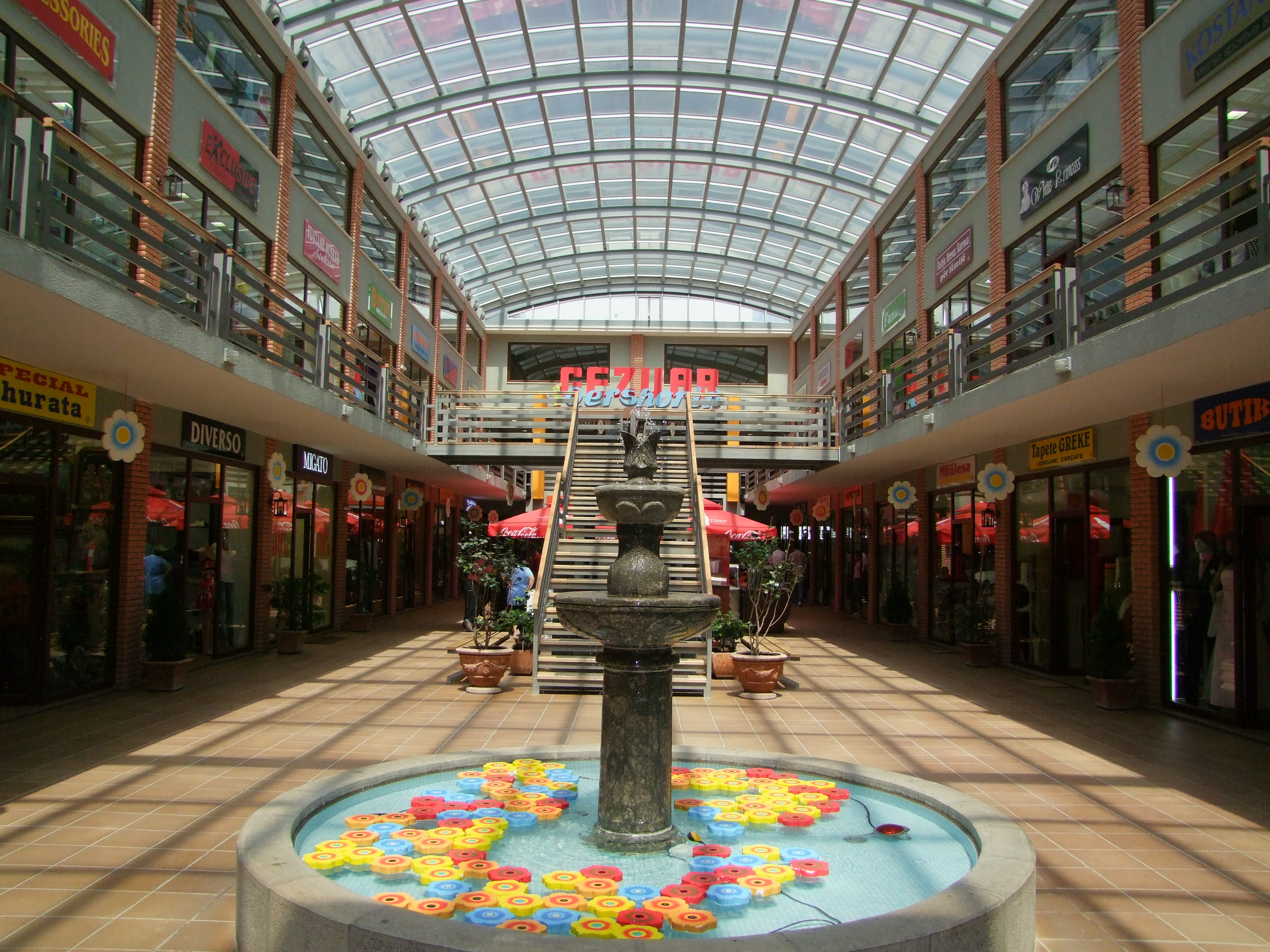 Korca/Albania Shopping-Mall